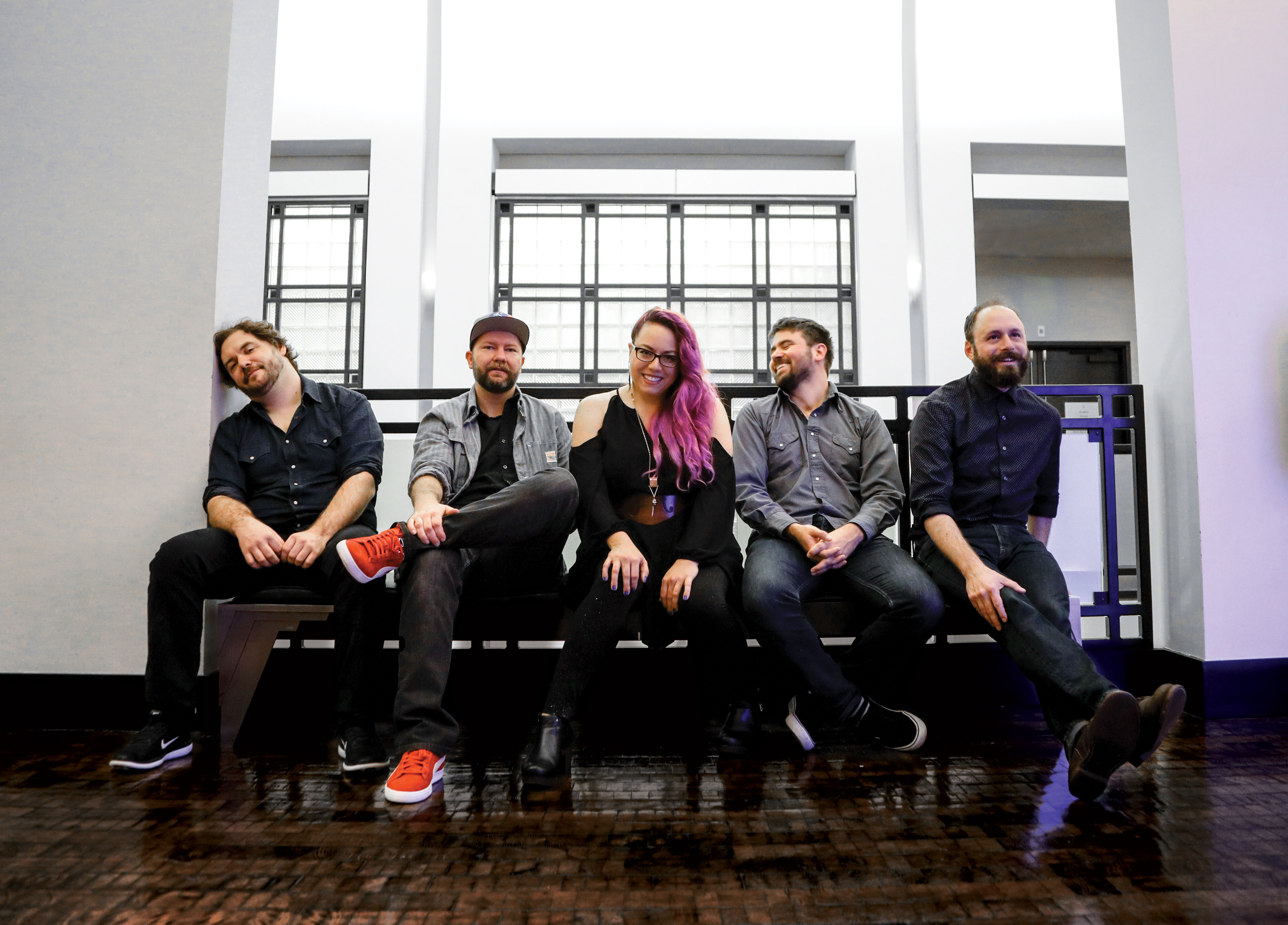 Front Country 2017 photo